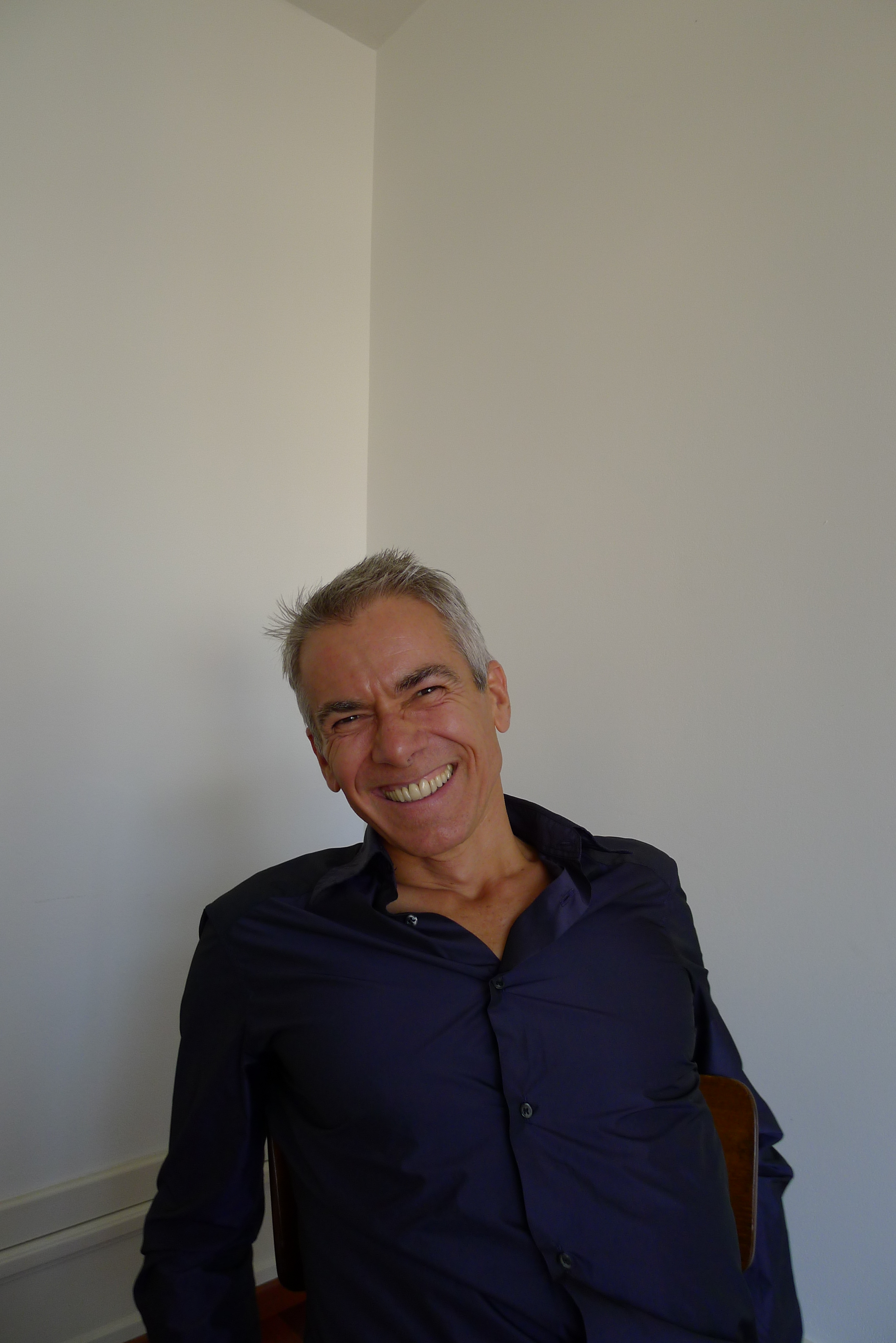 Artist Daniele Buetti in Zürich.